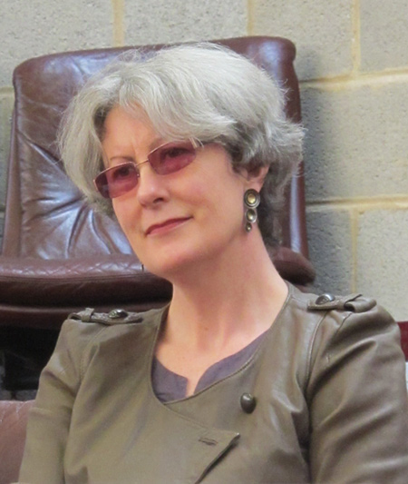 The Welsh poet Gwyneth Lewis at Worlds Writers Conference held by Writers' Centre Norwich at the University of East Anglia